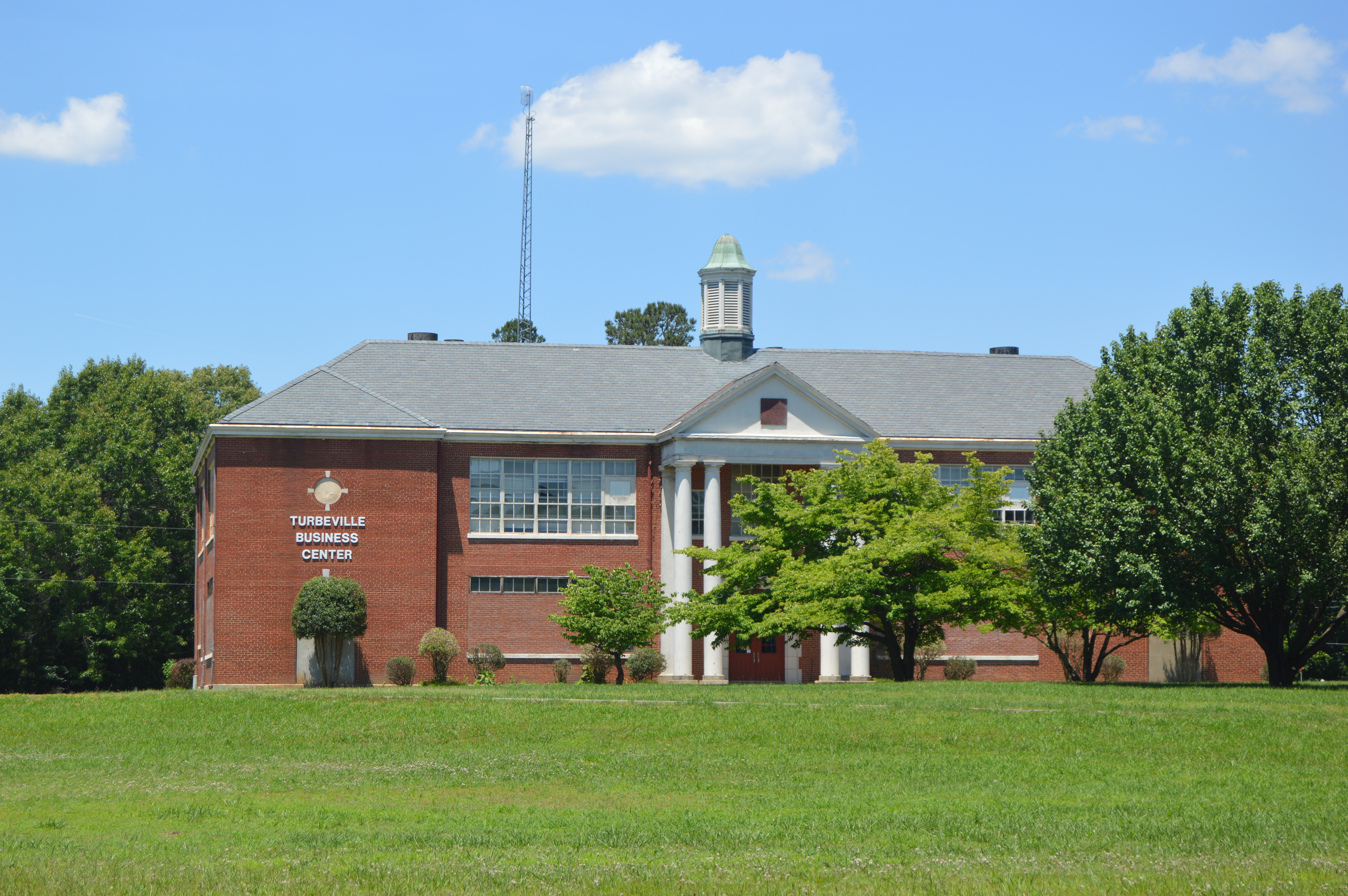 Front of the former Turbeville Elementary School (now a "business center"), located on Melon Road at Turbeville in Halifax County, Virginia, United States.